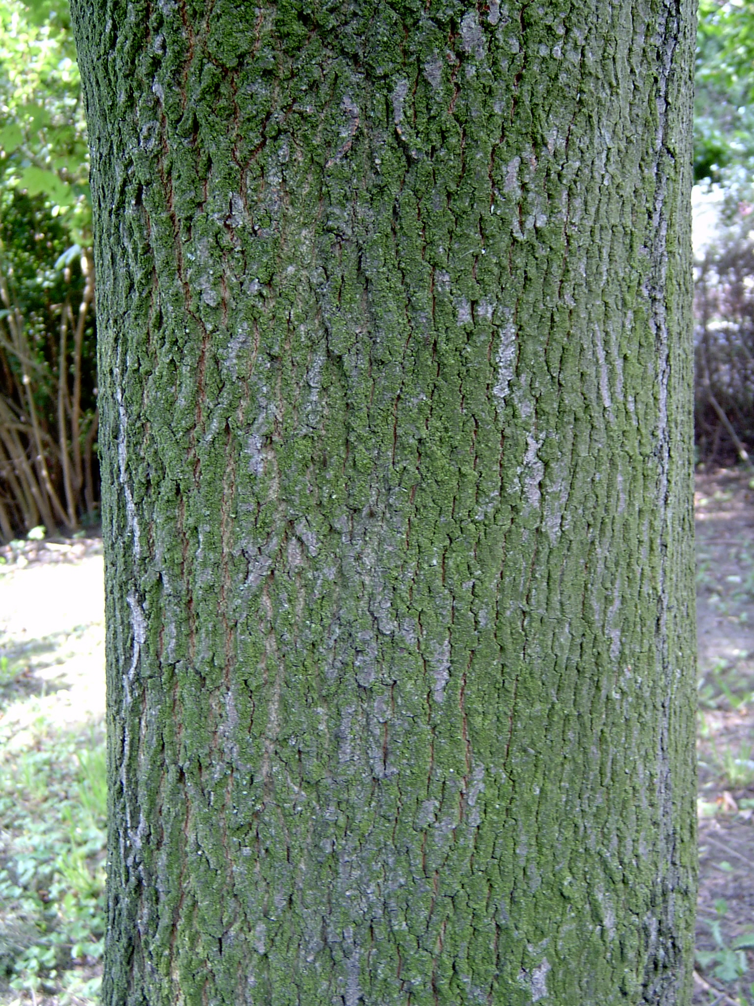 Acer platanoides, bark. Gryfino, NW Poland